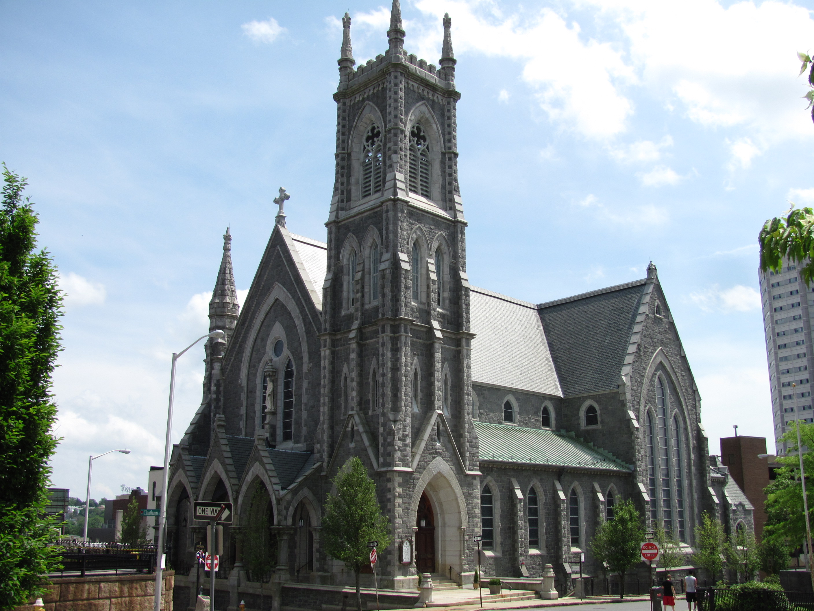 Cathedral of Saint Paul, Worcester Massachusetts